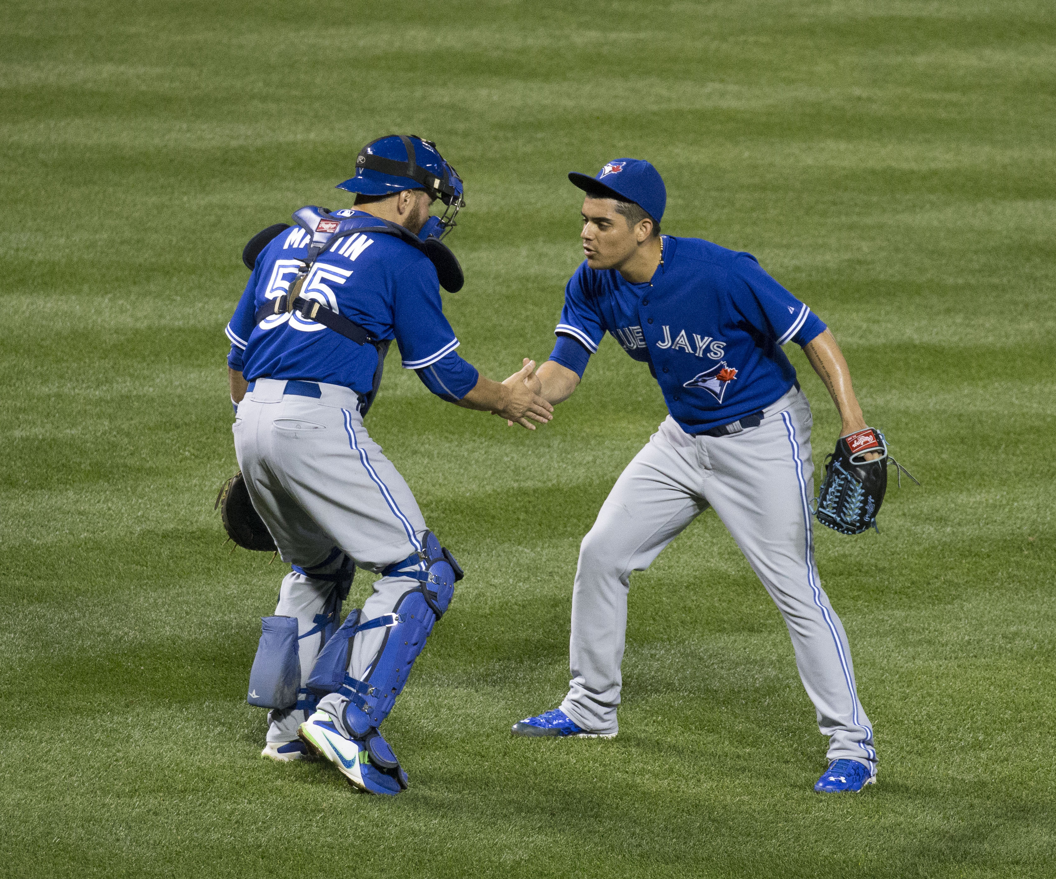 Roberto Osuna celebrates his 20th save of the season with Russell Martin